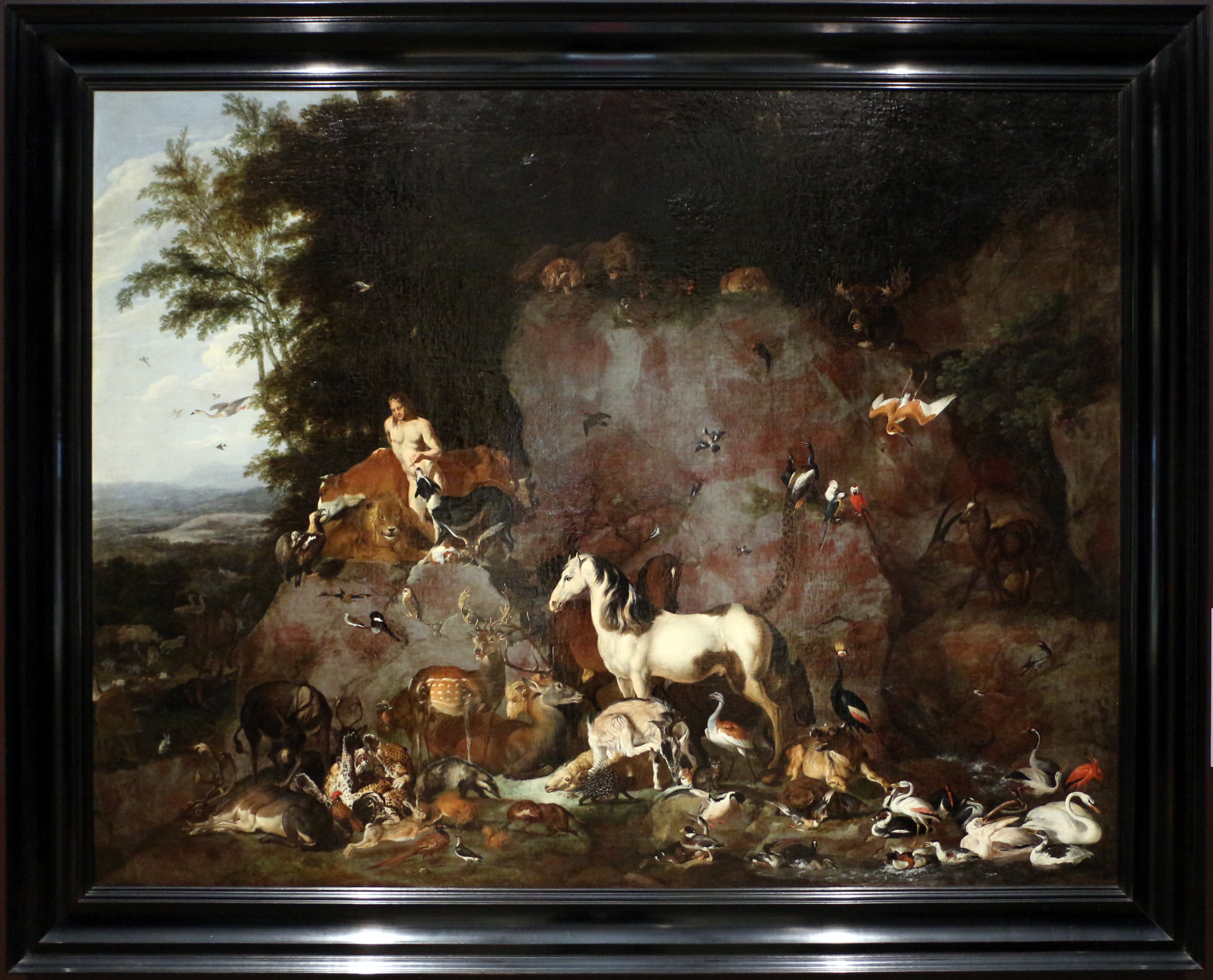 Paintings in the Speed Art Museum